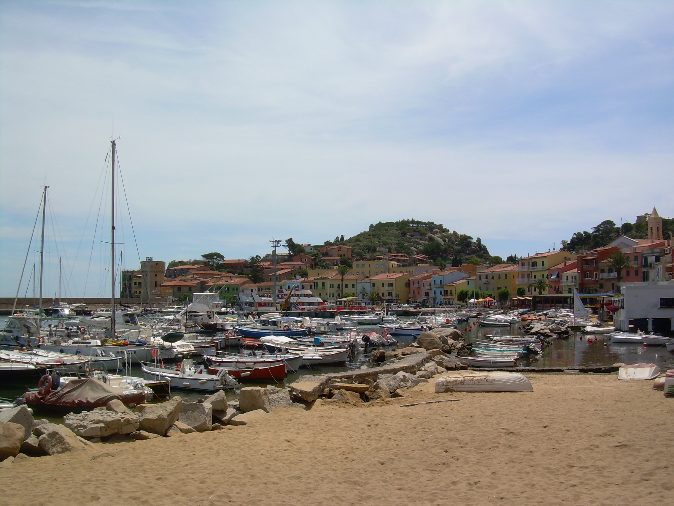 Giglio Porto, Isola del Giglio, Province of Grosseto, Tuscany, Italy